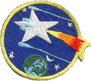 Emblem of USAF 196th Fighter-Interceptor Squadron (ADC) California Air National Guard